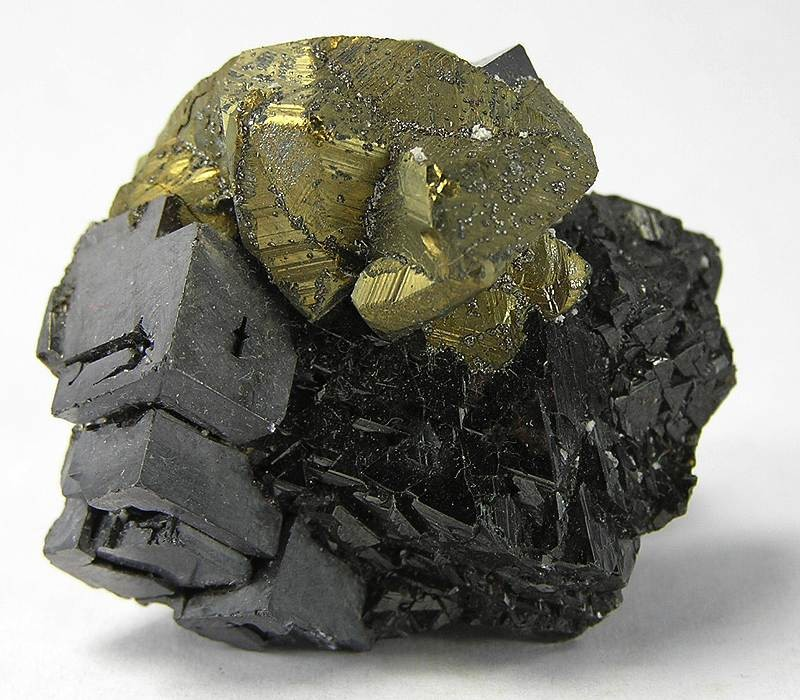 Chalcopyrite, Sphalerite, Galena Locality: Huaron Mines, Huaron Mining District, San Jose de Huayllay District, Cerro de Pasco, Daniel Alcides Carrión Province, Pasco Department, Peru (Locality at ) Size: 4.3 x 3.2 x 1.8 cm. A beautifully balanced combo specimen from Peru, combining sharp, brassy chalcopyrite with stacked cubes of silvery galena and dark, lustrous sphalerite. You can see a galena cube buried right in the middle of the chalcopyrite! Stark contrast of form and color makes this a choice miniature standing out amidst the crowd from these mines.